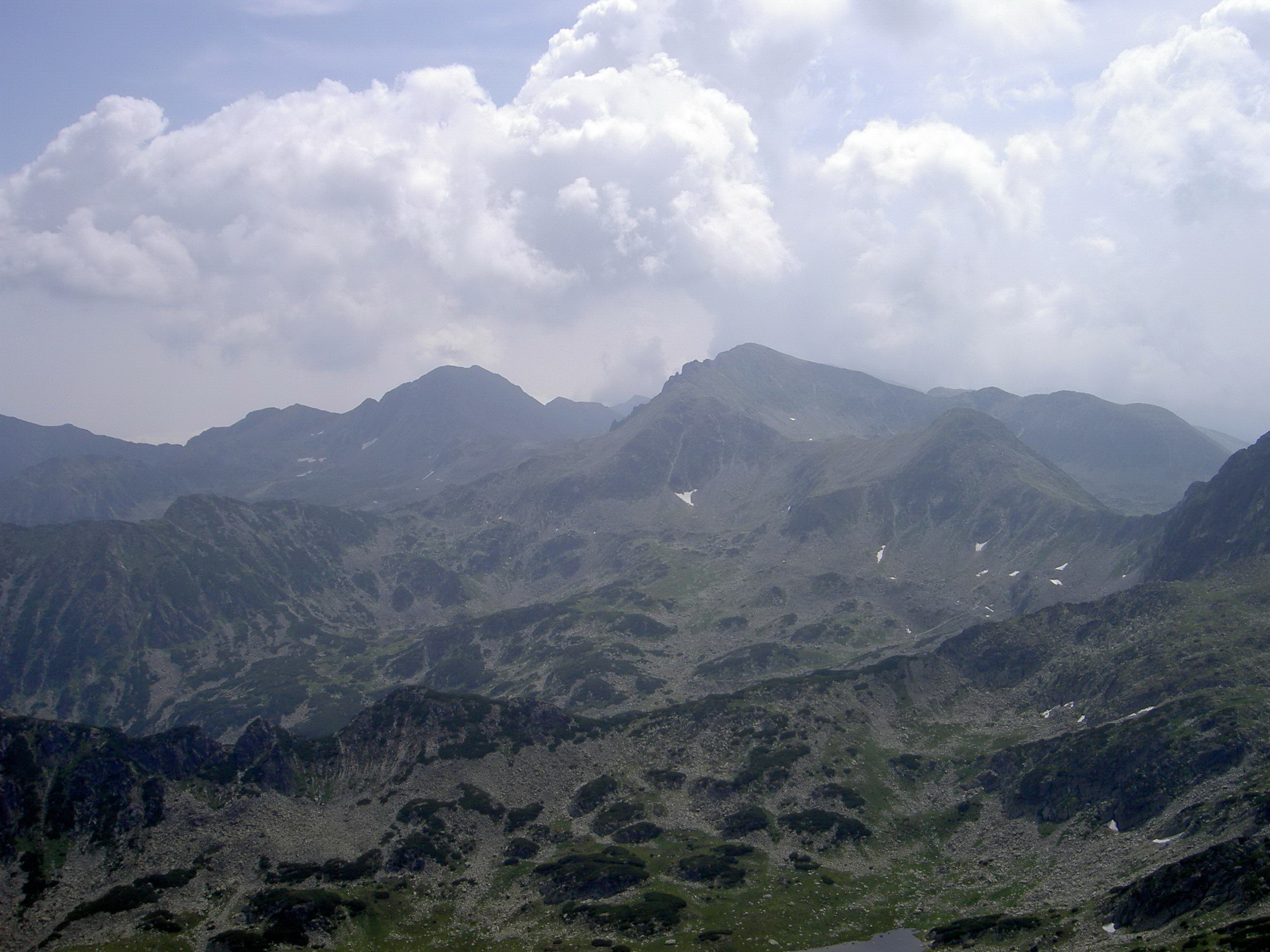 Peleaga Peak